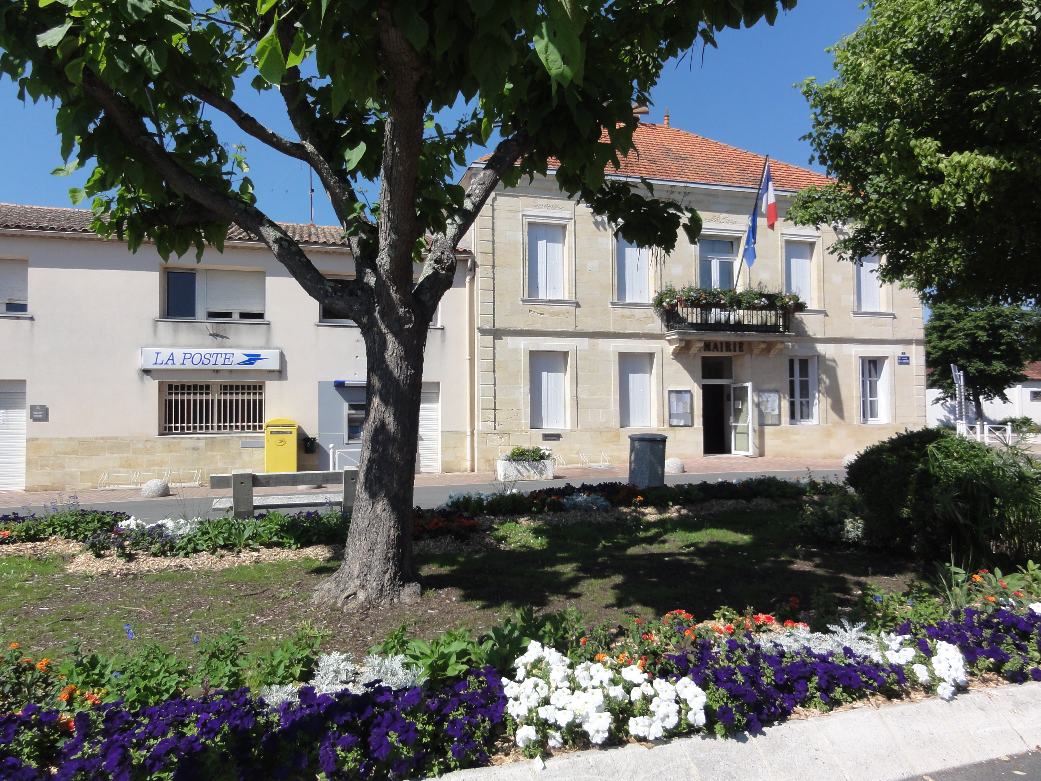 Braud-et-Saint-Louis (Gironde) mairie-poste